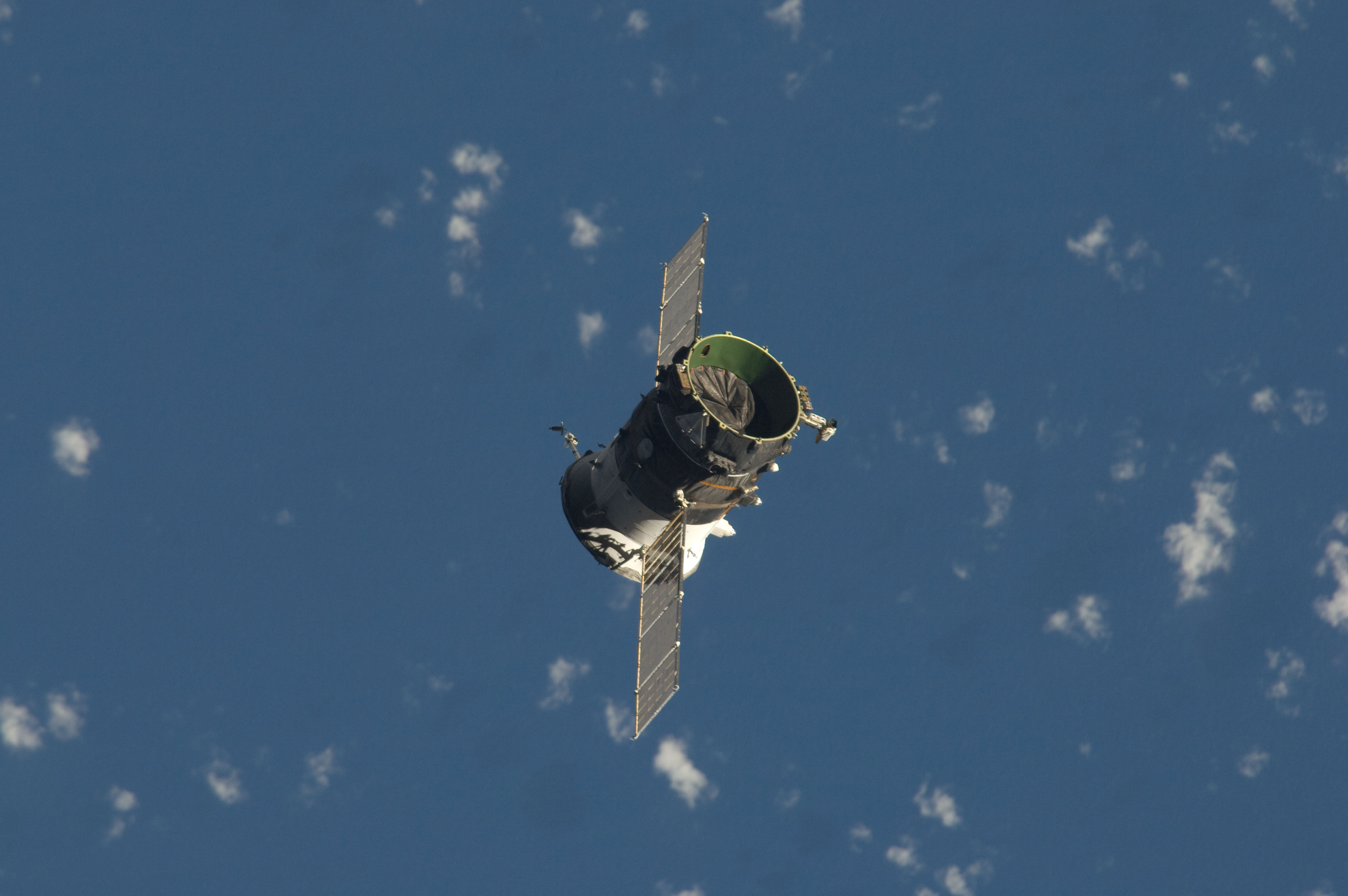 The propulsion compartment of the Poisk Mini-Research Module 2 (MRM2) departs from the International Space Station and was deorbited four hours later for a destructive reentry in Earth's atmosphere. The undocking occurred at 6:16 p.m. (CST) on Dec. 7, 2009. Its departure opens up a docking port for Russian vehicles on Poisk, which will first be used when NASA astronaut Jeffrey Williams, Expedition 22 commander; and Russian cosmonaut Maxim Suraev, flight engineer, relocate their Soyuz spacecraft in January 2010.